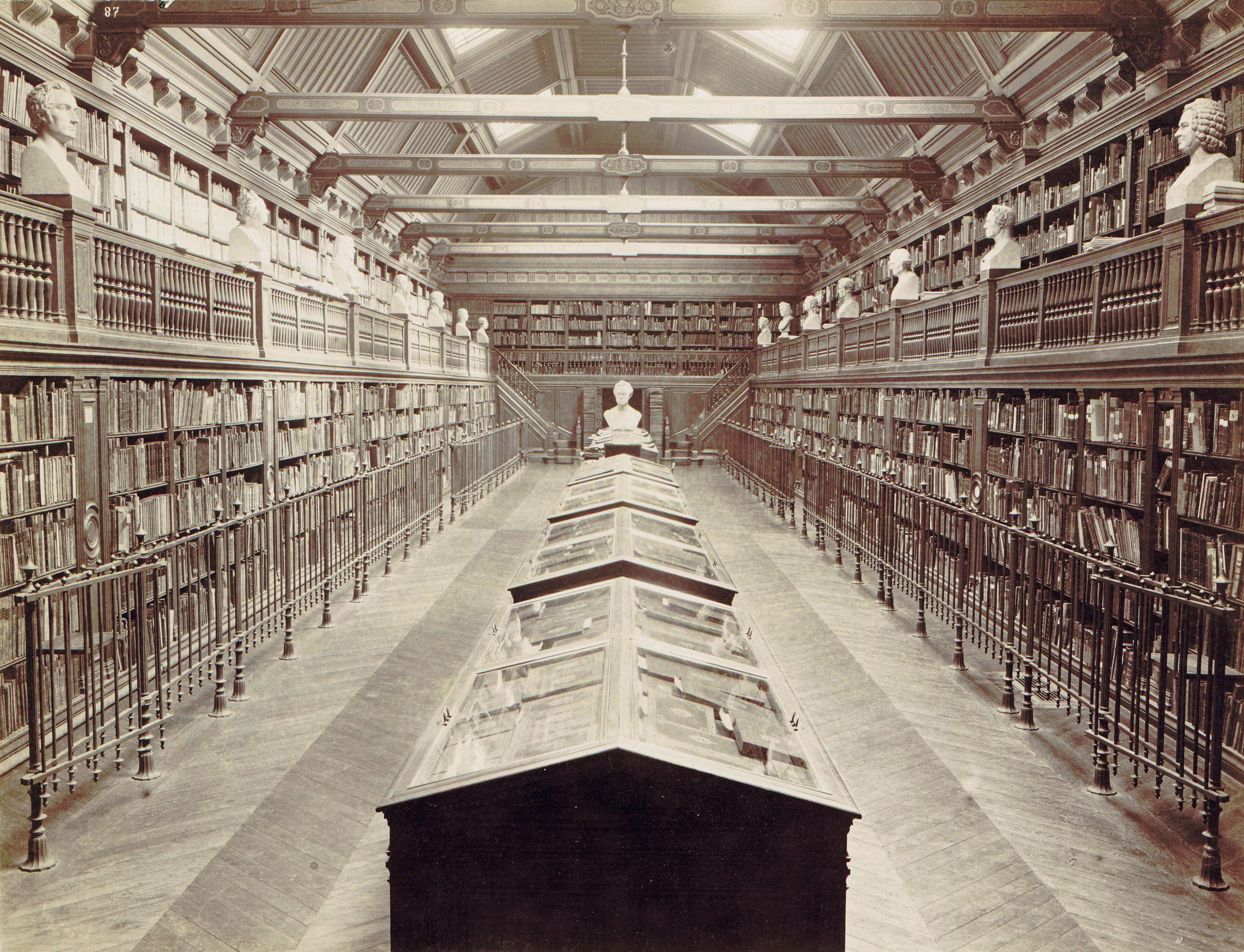 Library of the Paris Conservatory of Music